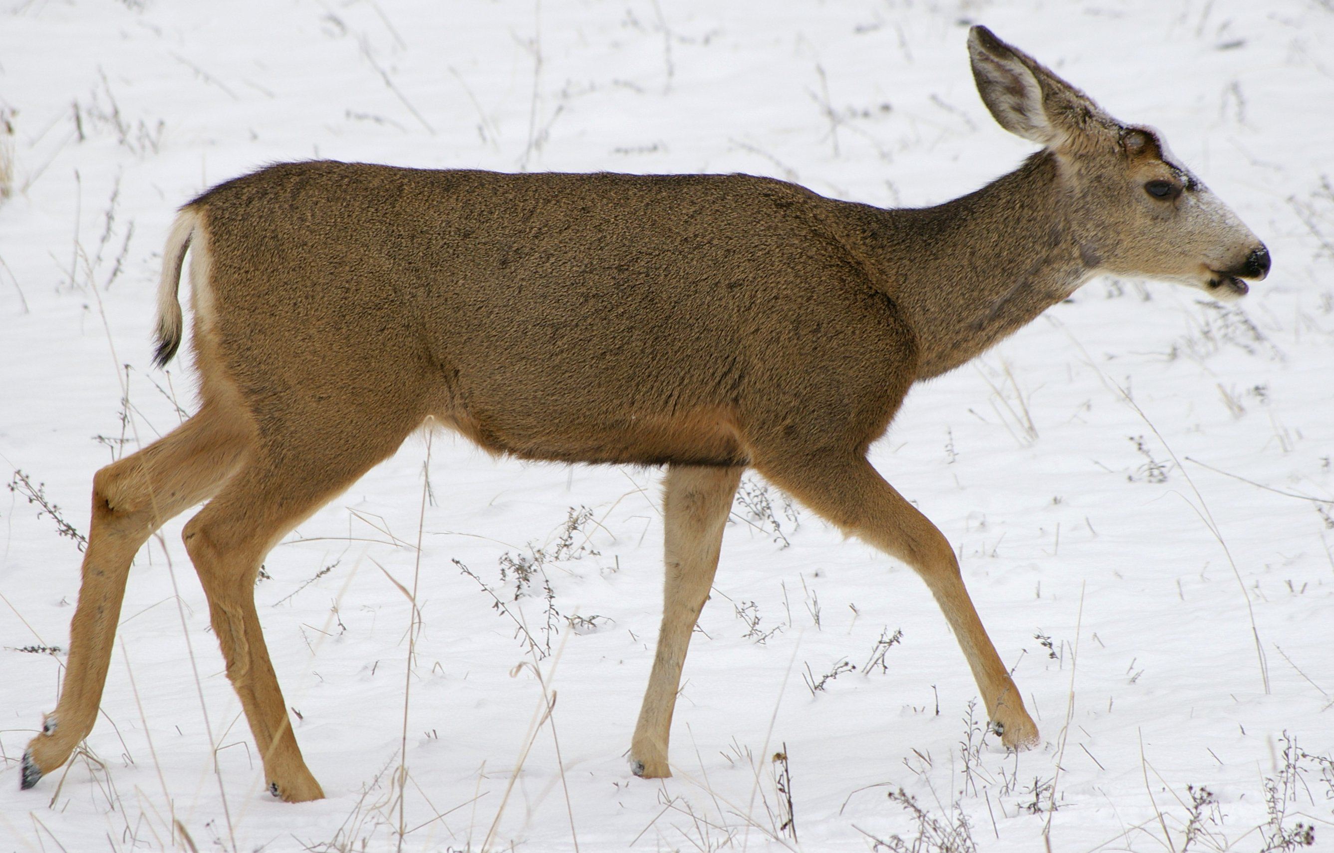 A mule deer in a field covered in snow, just west of Boulder, CO.